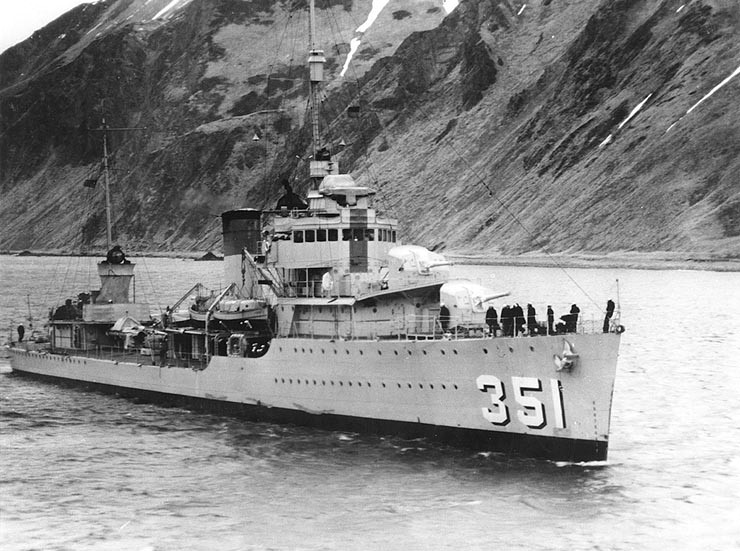 USS Macdonough (DD-351) Aproaching an anchorage in the lower end of Iliuliuk Bay, off Rocky Point, in the Aleutian Islands. Photographed from USS Dewey (DD-349).